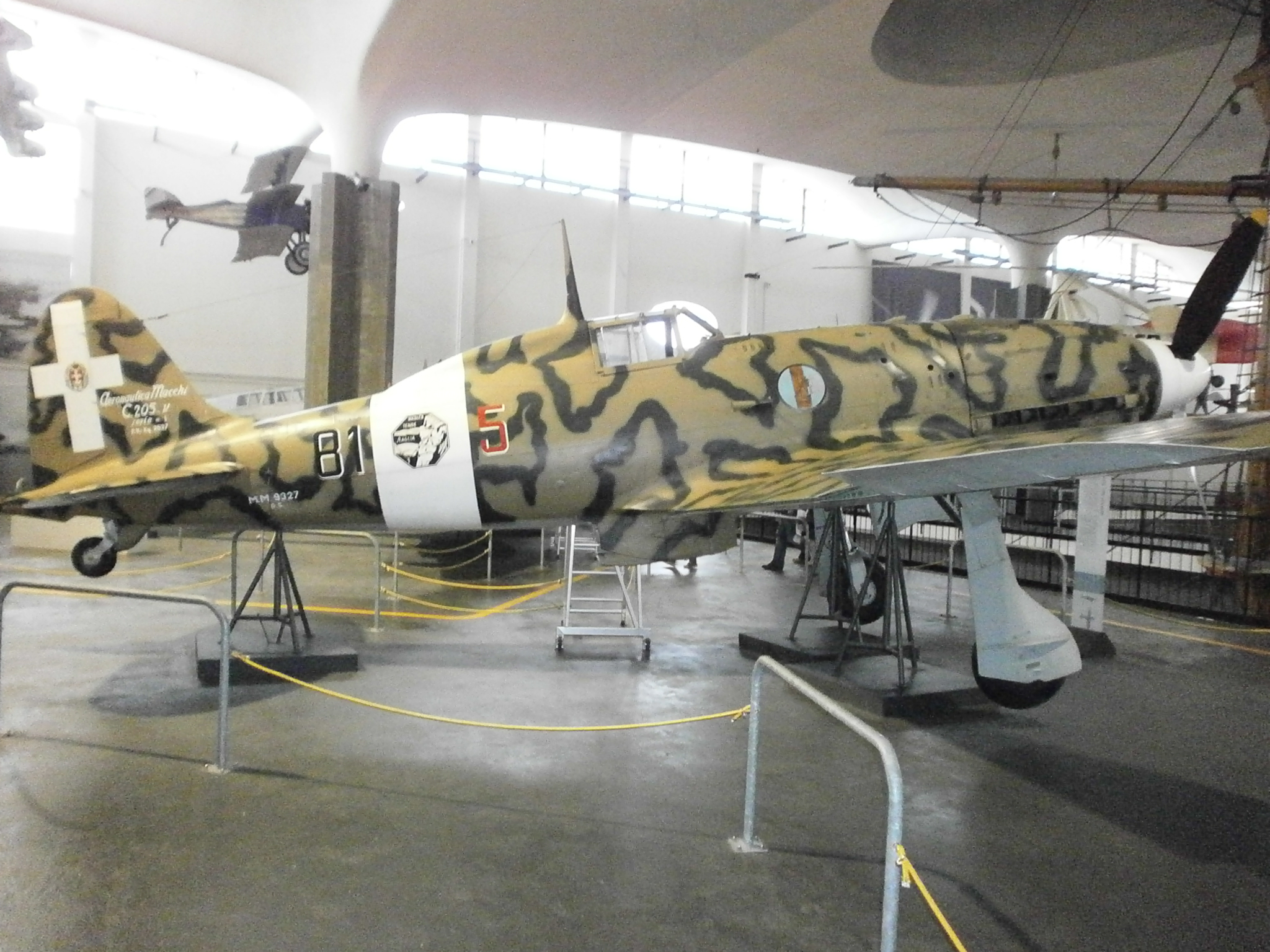 Macchi MC 205 V - Museo della Scienza e della Tecnica - Milano